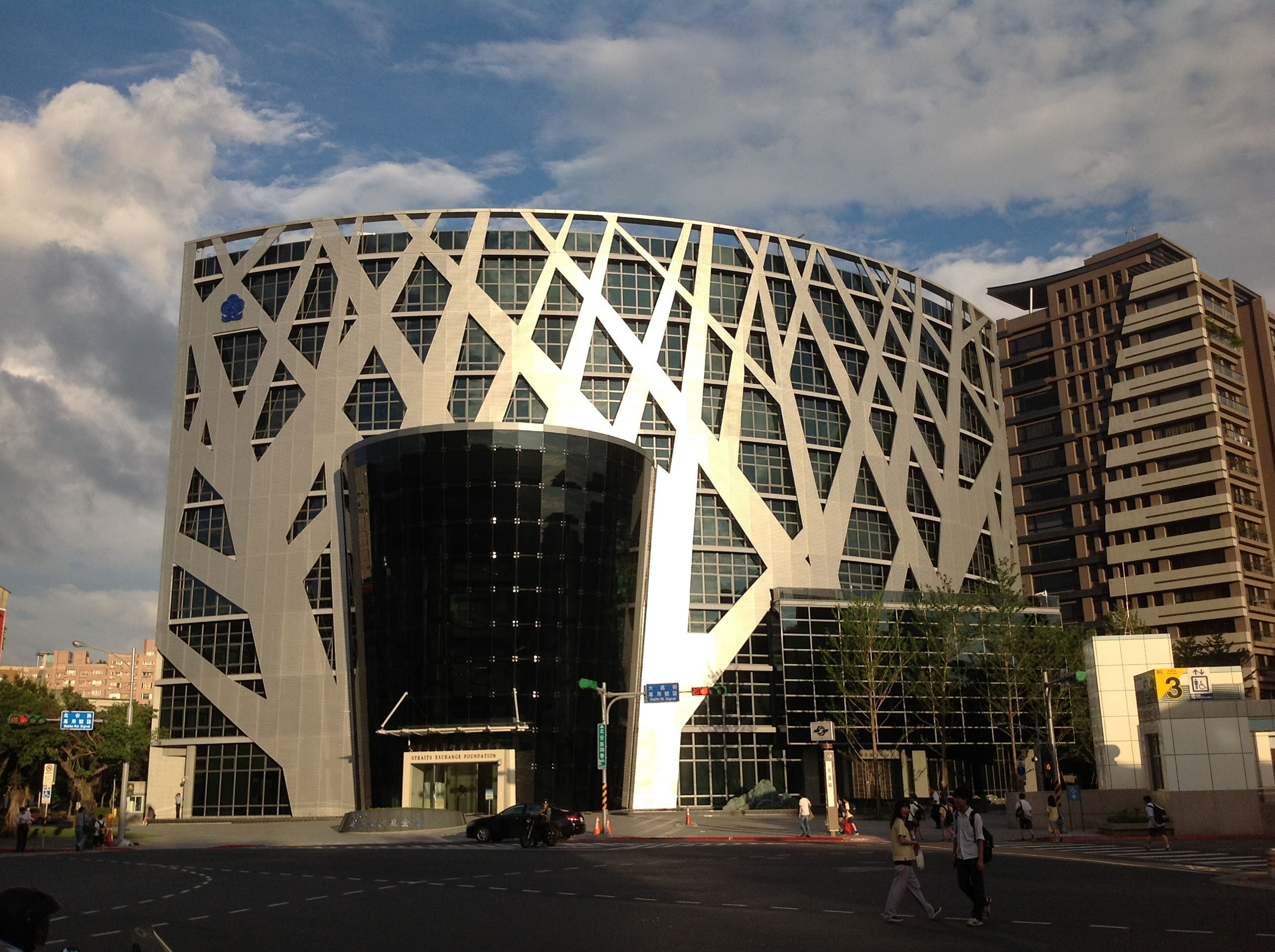 The Straits Exchange Foundation’s new headquarters in Dazhi, an area of Zhongshan District, Taipei.